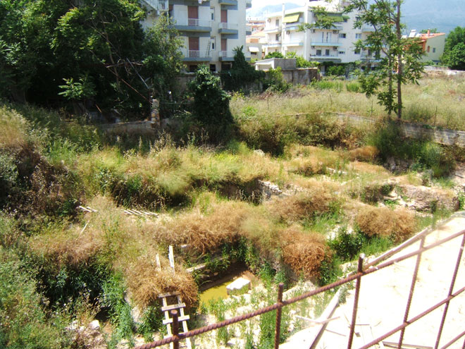 Jewish Synagogue in Chios. Credit: Courtesy of Arie Darzi to memorialize the Jewish community in Greece.